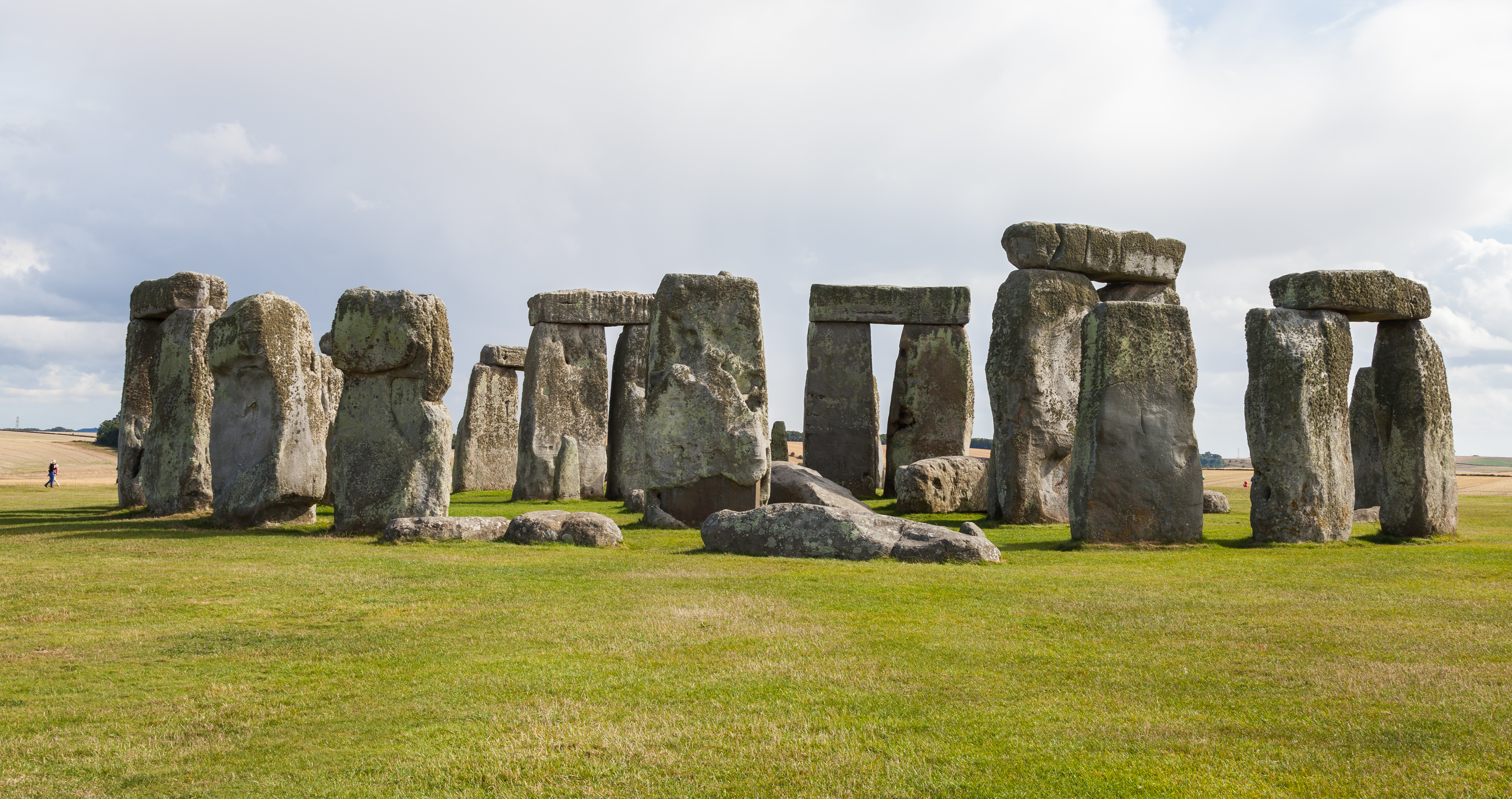 Stonehenge, Wiltshire, England